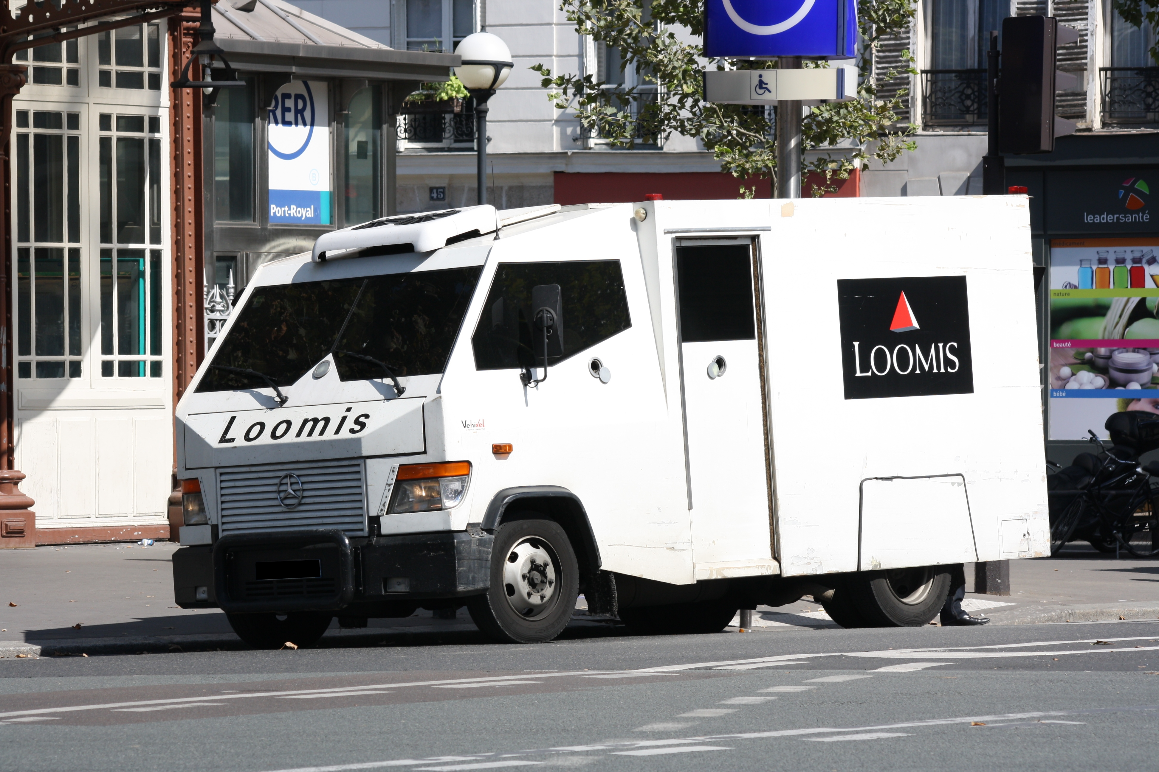 Loomis truck in Paris, France